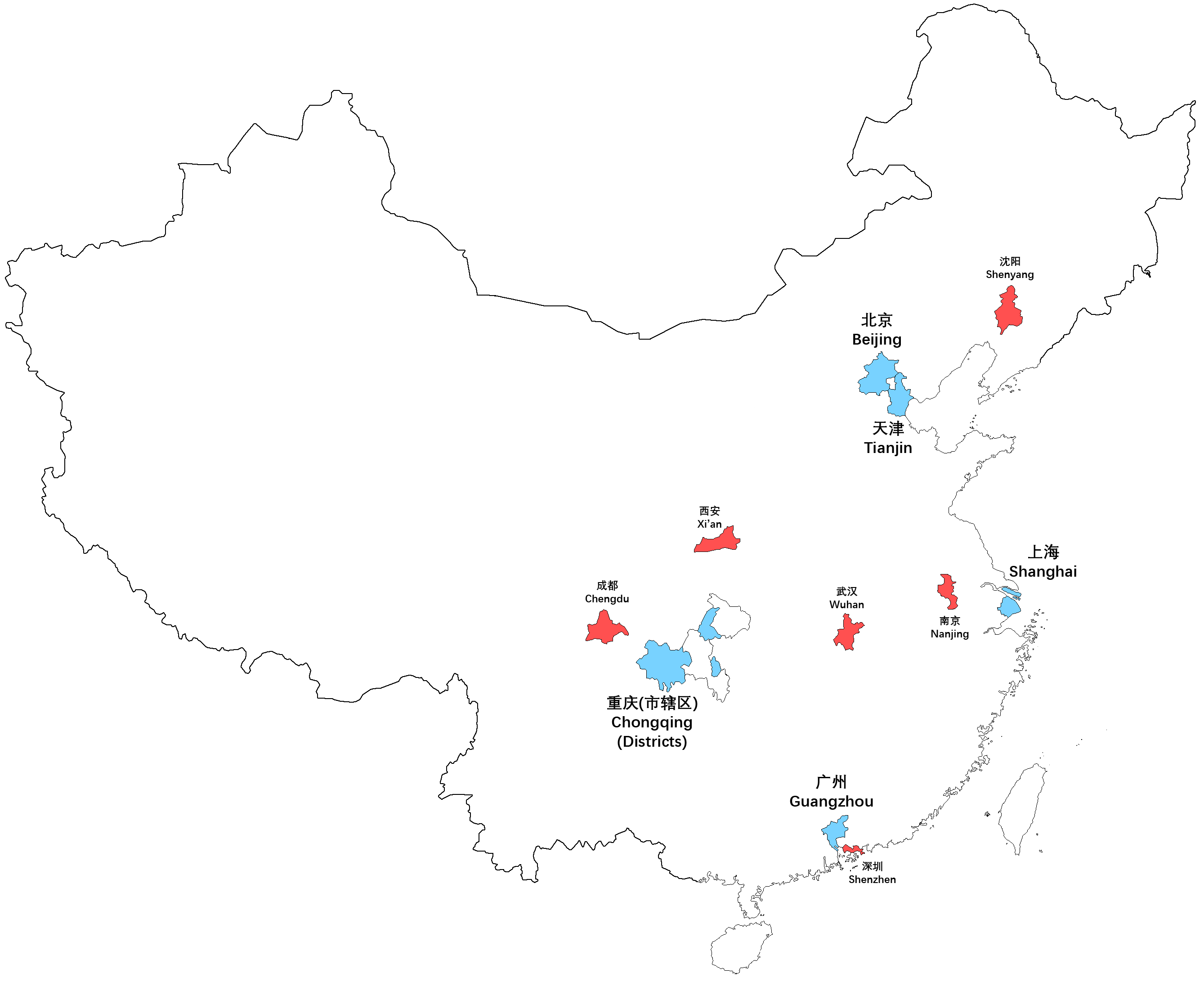 Map showing PRC's National central cities (English and Simplified Chinese)